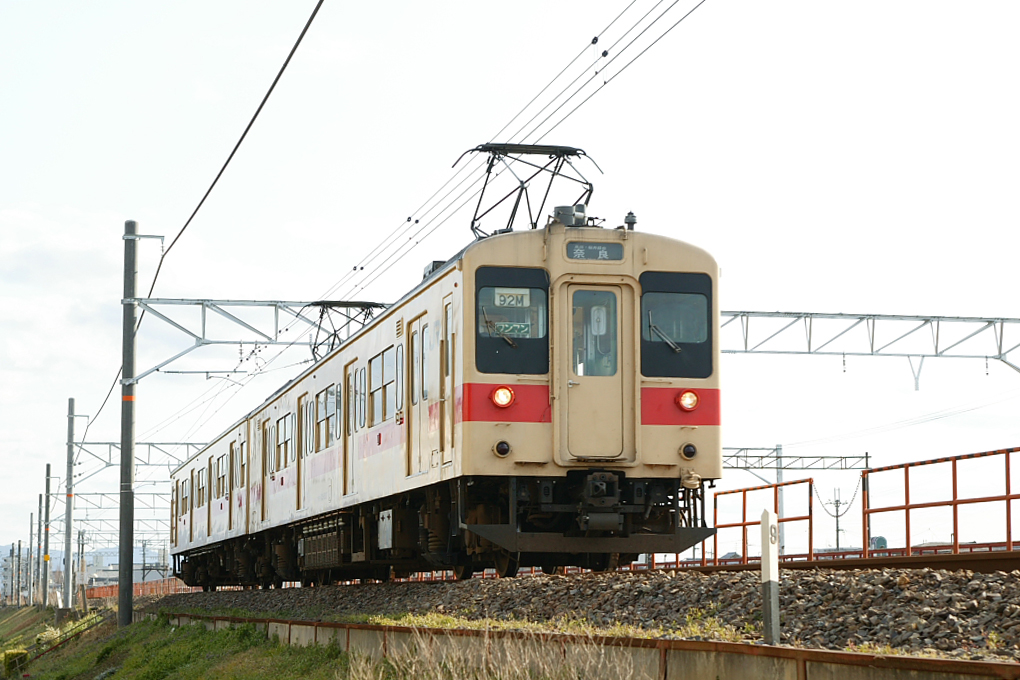 A JR West 105 series EMU on the Sakurai Line